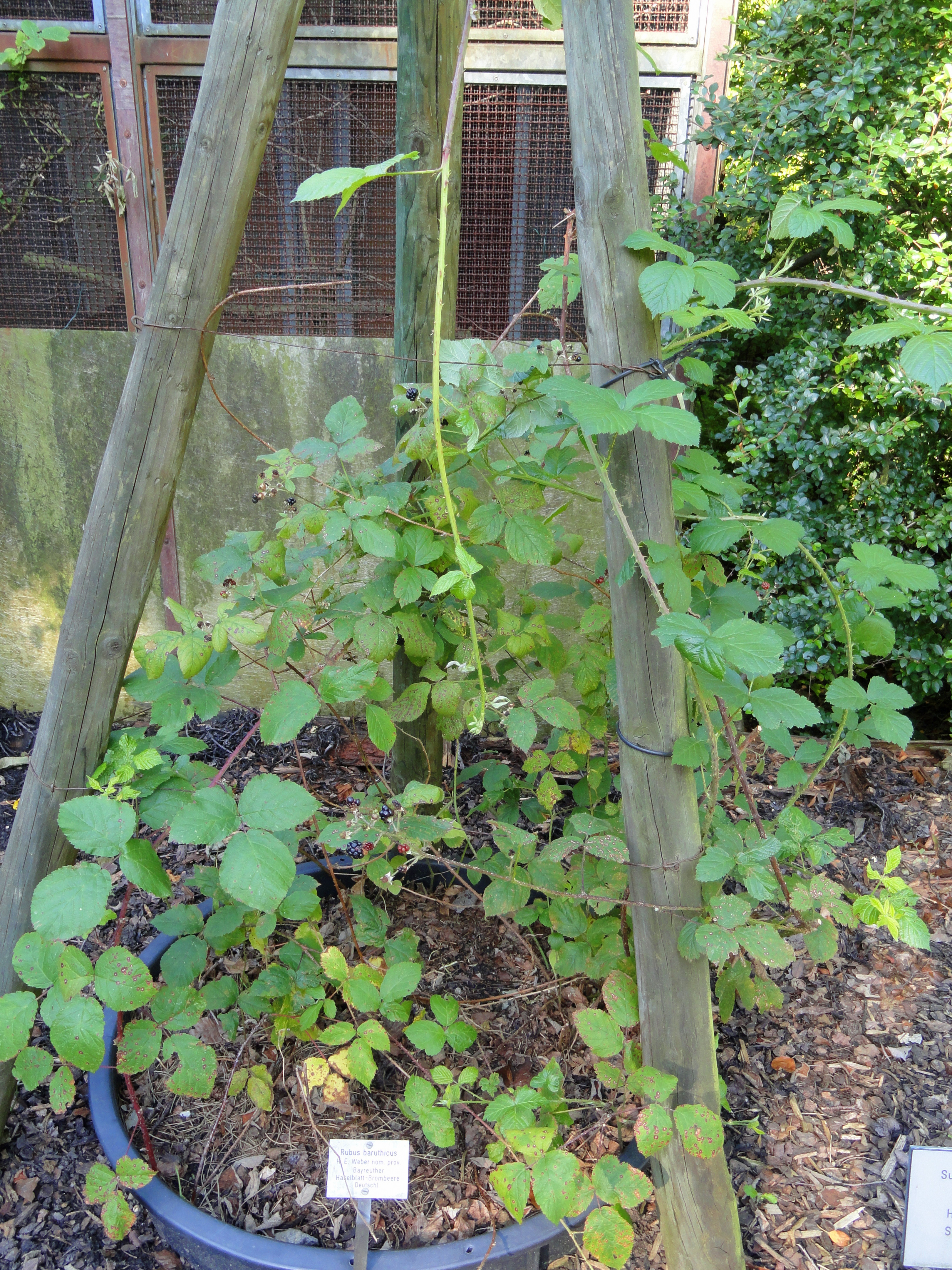 Botanical specimen in the Botanischer Garten, Frankfurt am Main, located at Siesmayerstraße 72, Frankfurt am Main, Germany.